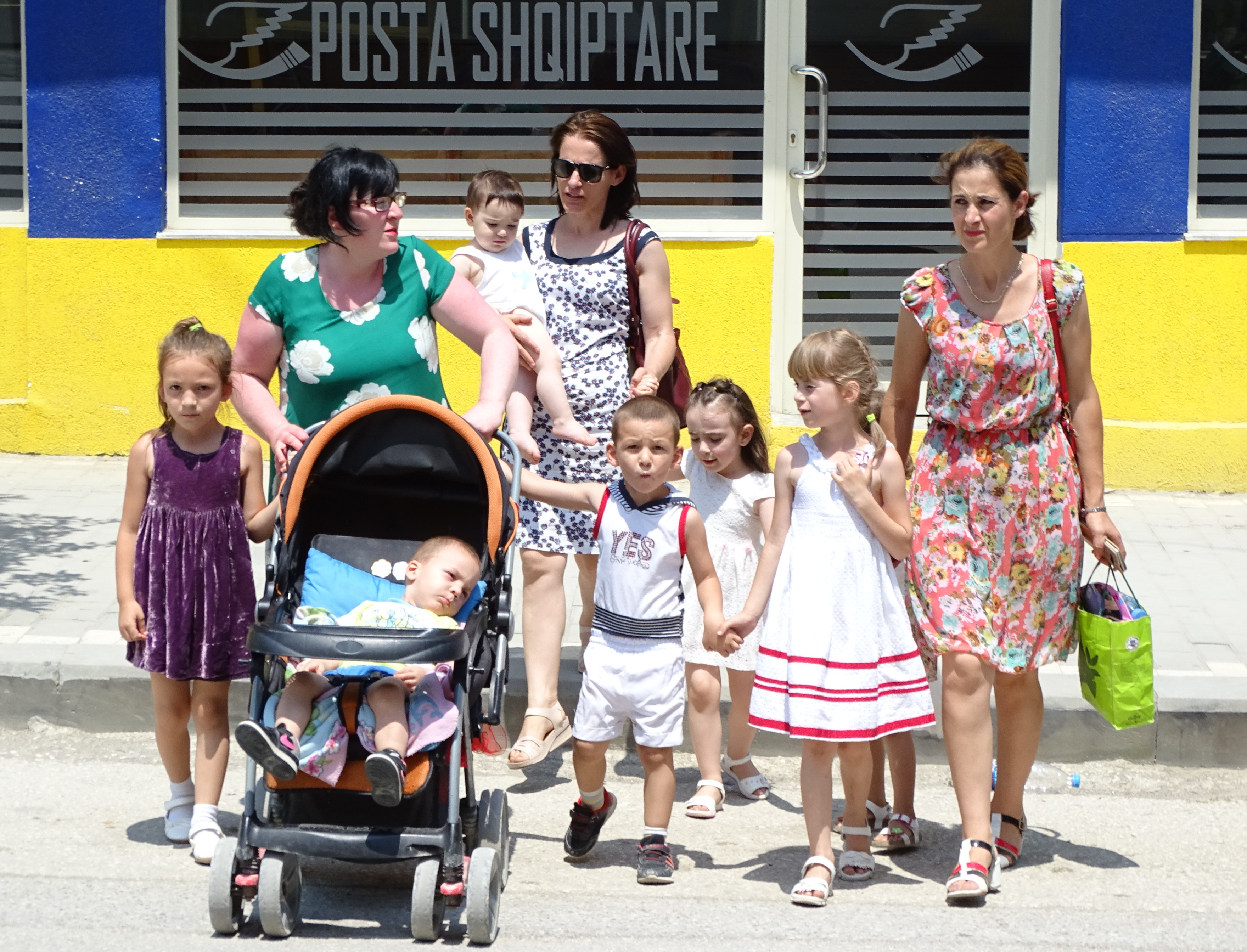 Photos by Adam Jones